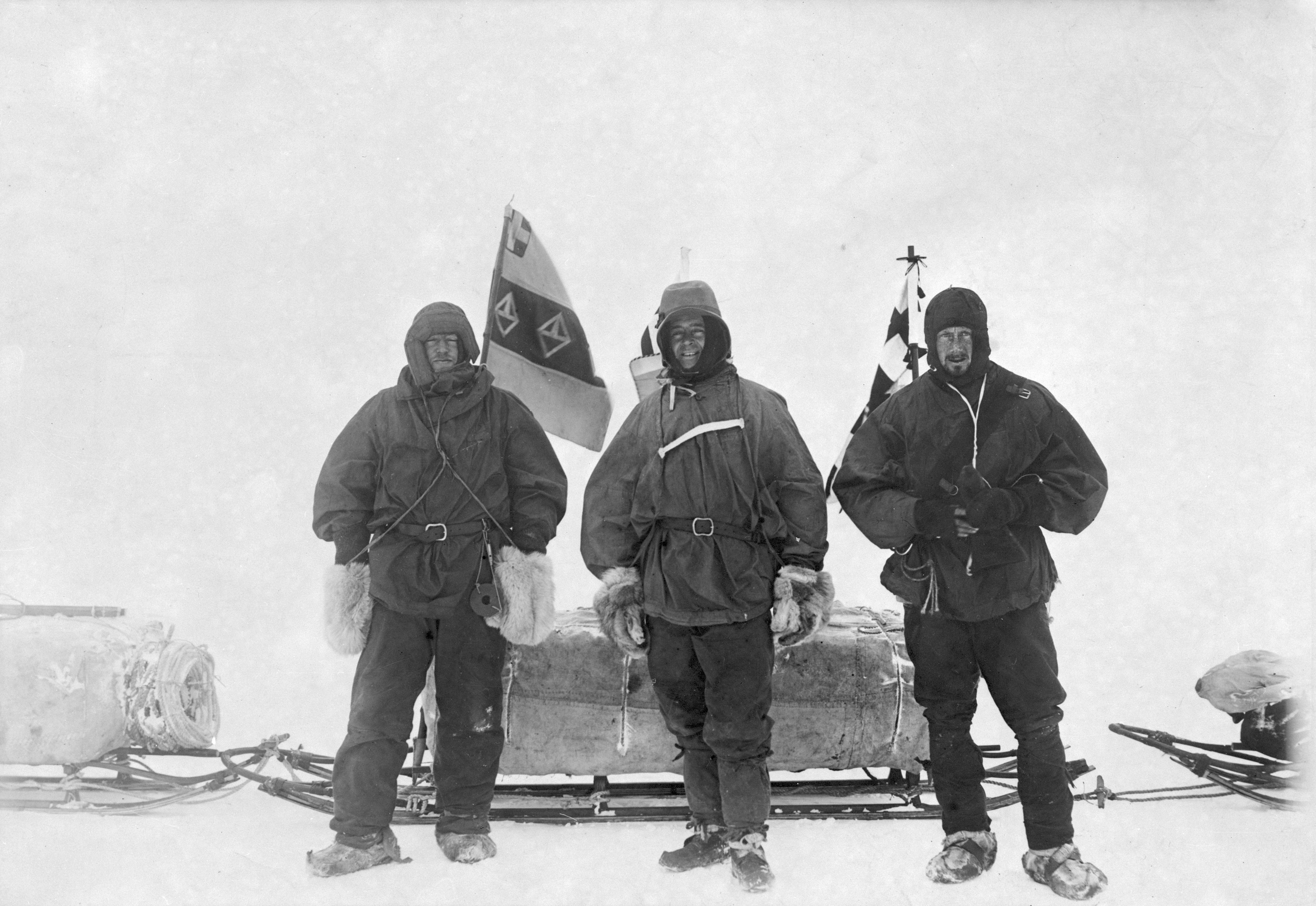 Ernest Henry Shackleton, Captain Robert Falcon Scott and Dr. Edward Adrian Wilson on the British National Antarctic Expedition (a.k.a. Discovery-Expedition), 2 Nov 1902